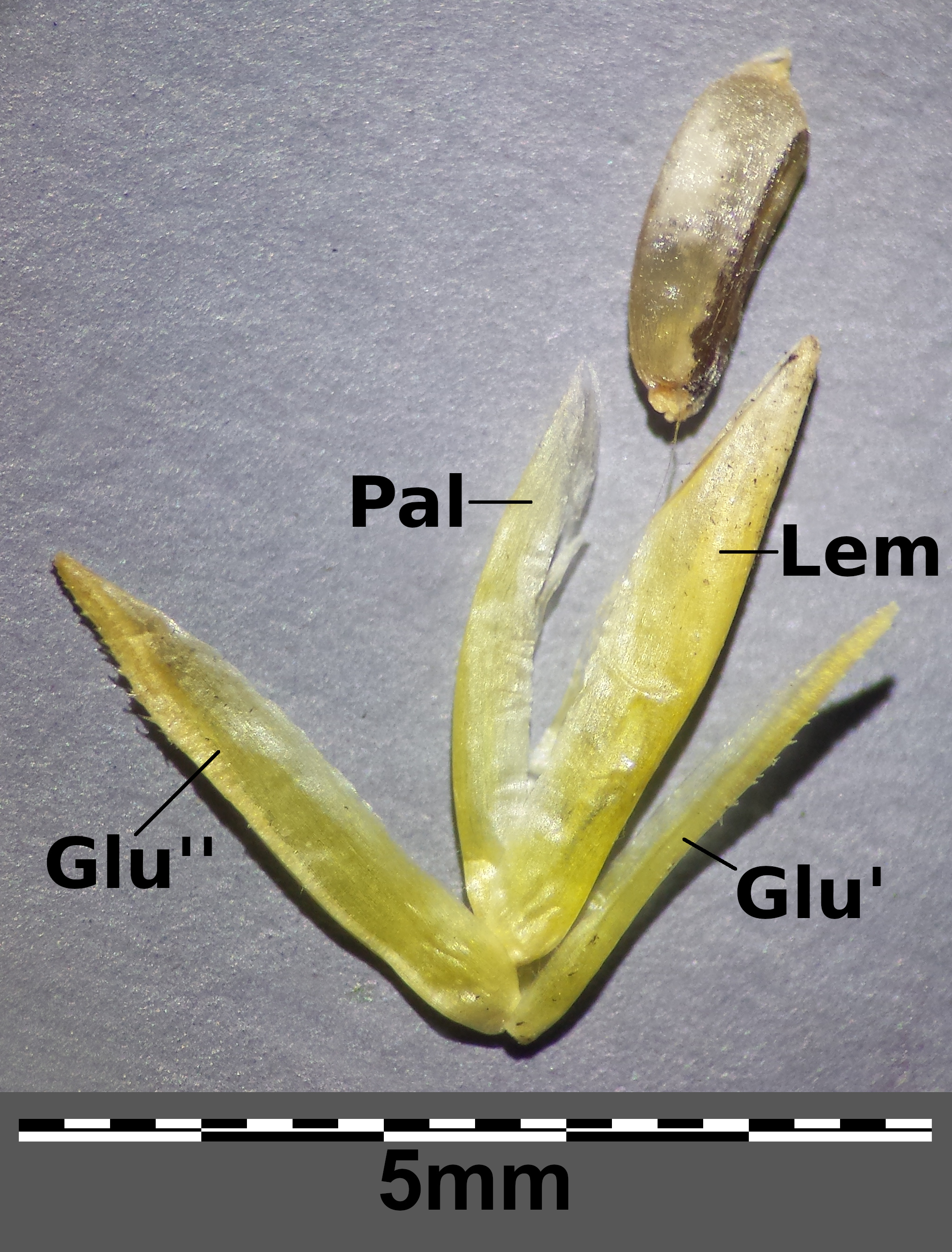 Spikelet with: Glu = Glumae Lem = Lemma Pal = Palea Taxonym: Crypsis aculeata ss Fischer et al. EfÖLS 2008 ISBN 978-3-85474-187-9 Location: Legerilacke next to Podersdorf, district Neusiedl am See, Burgenland, Austria - ca. 120 m a.s.l. Habitat: dried-out small salt lake